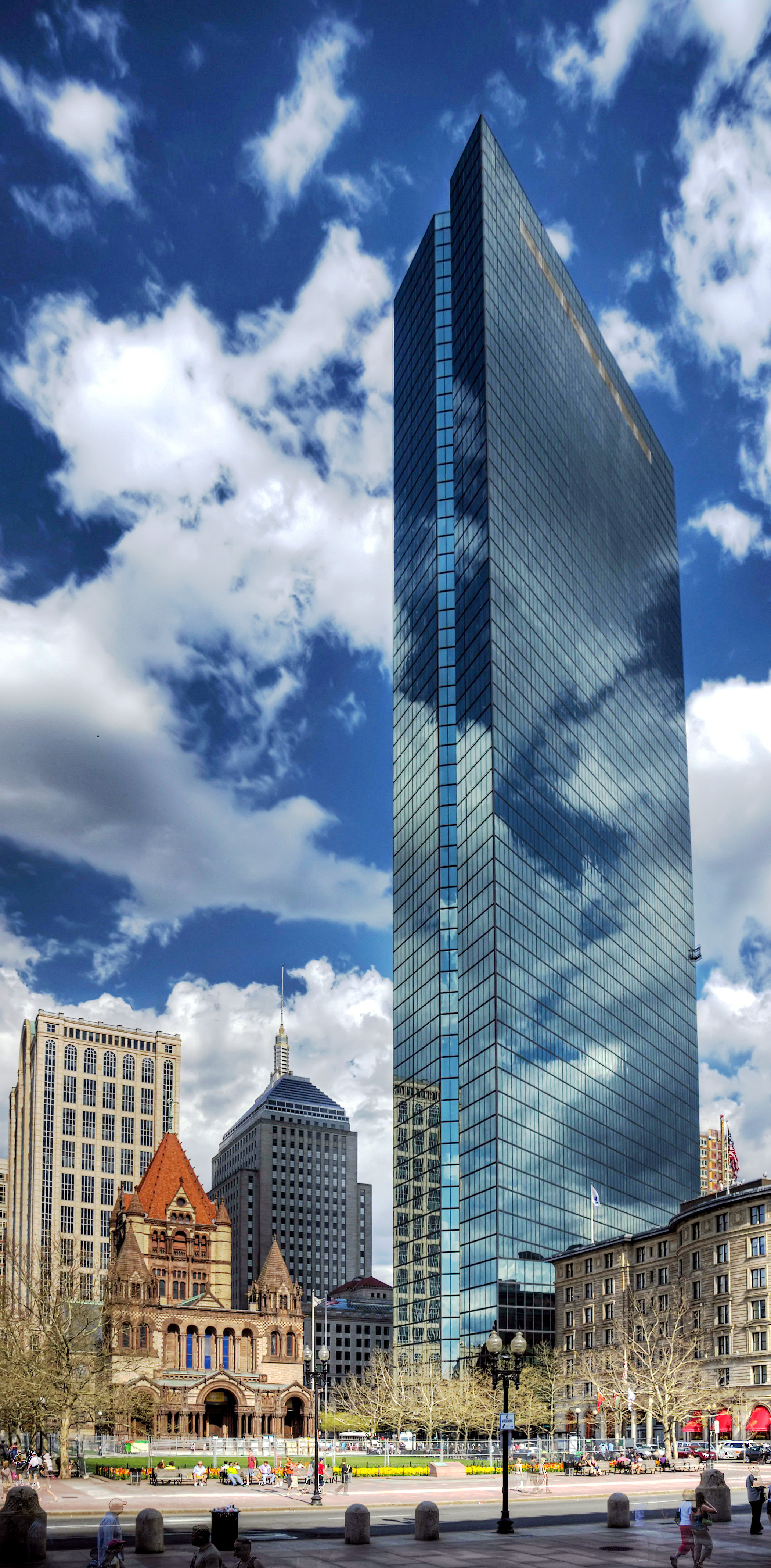 John Hancock Tower in Boston in April 2009.